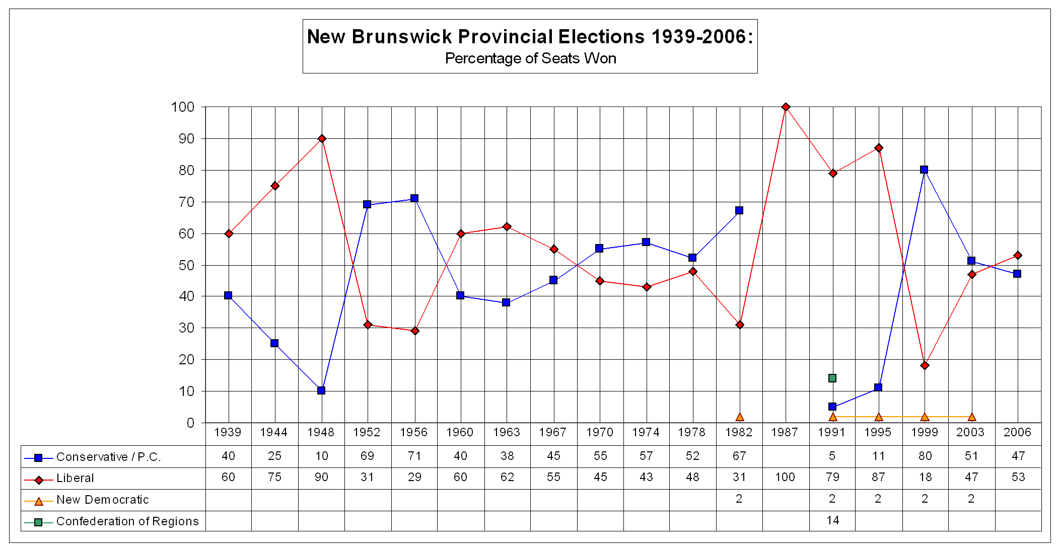 New Brunswick general election results from 1939 to 2006, shown as a percentage of total seats in the Legislative Assembly won by each party. Français cadien: Résultats des élections generales en Nouveau-Brunswick de 1939 a 2006.